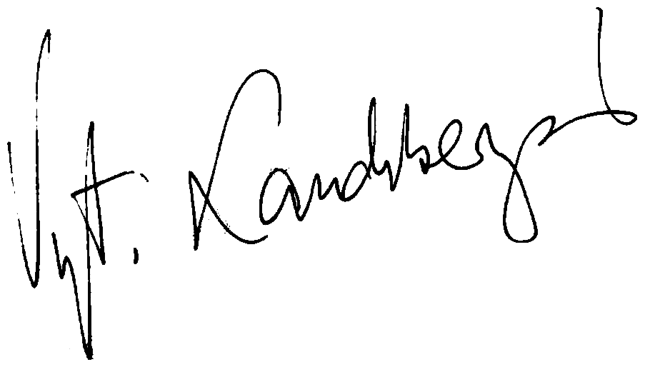 Signature of Vytautas Landsbergis.